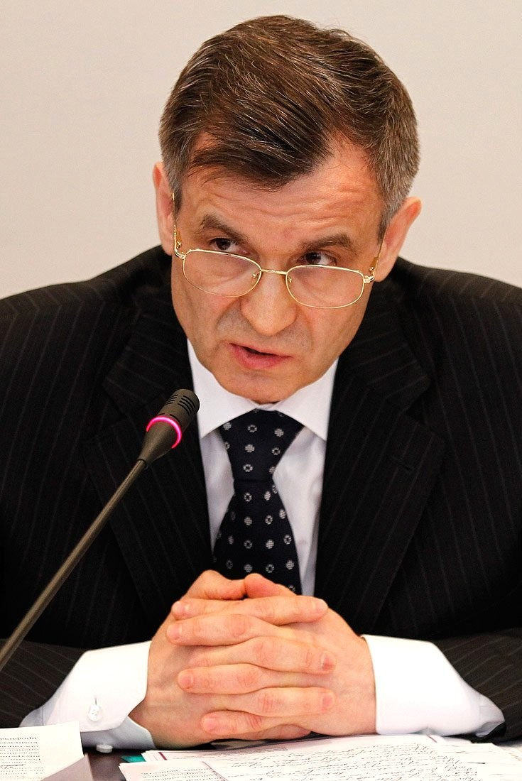 Rashid Nurgaliyev, Russian general and politician from Tatarstan.